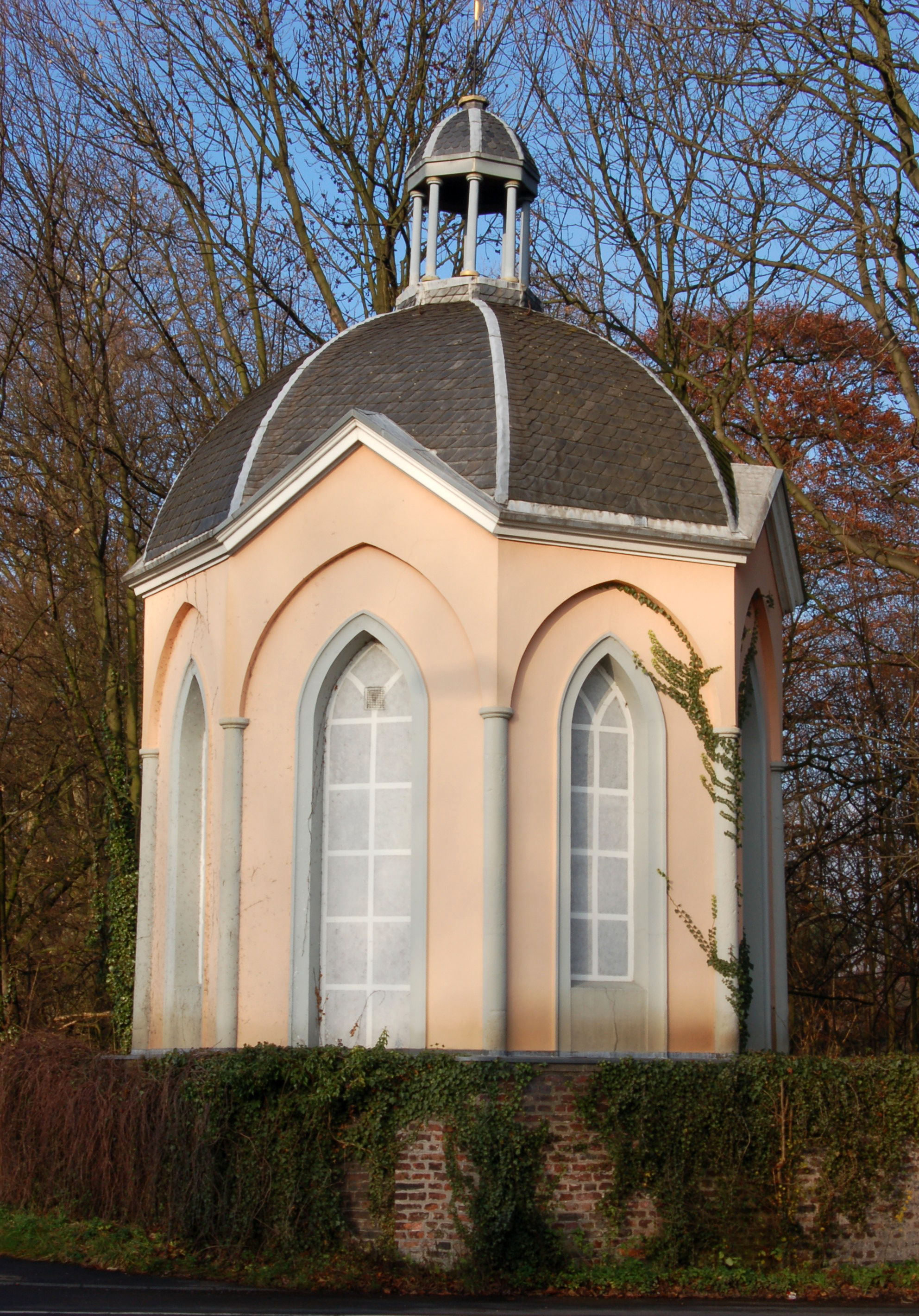 Tea pavillion, in Meerbusch